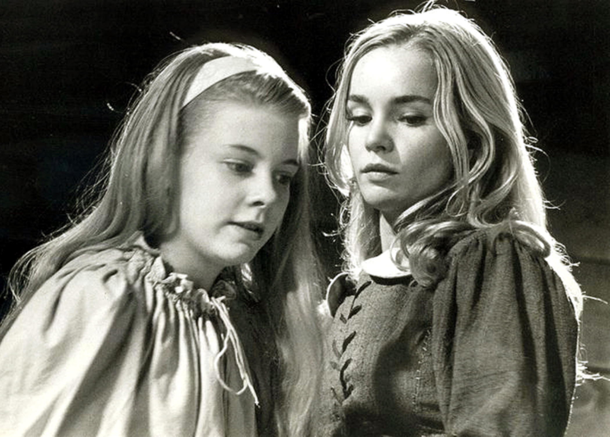 1967, as Betty Parris in David Susskind's Emmy Award winning television production of Arthur Miller's play, "The Crucible", starring George C. Scott, Melvyn Douglas, Colleen Dewhurst, and Tuesday Weld.